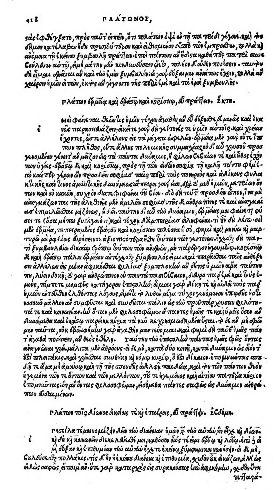 Epistolae VI and VII beginning. Editio princeps, Venice 1513.